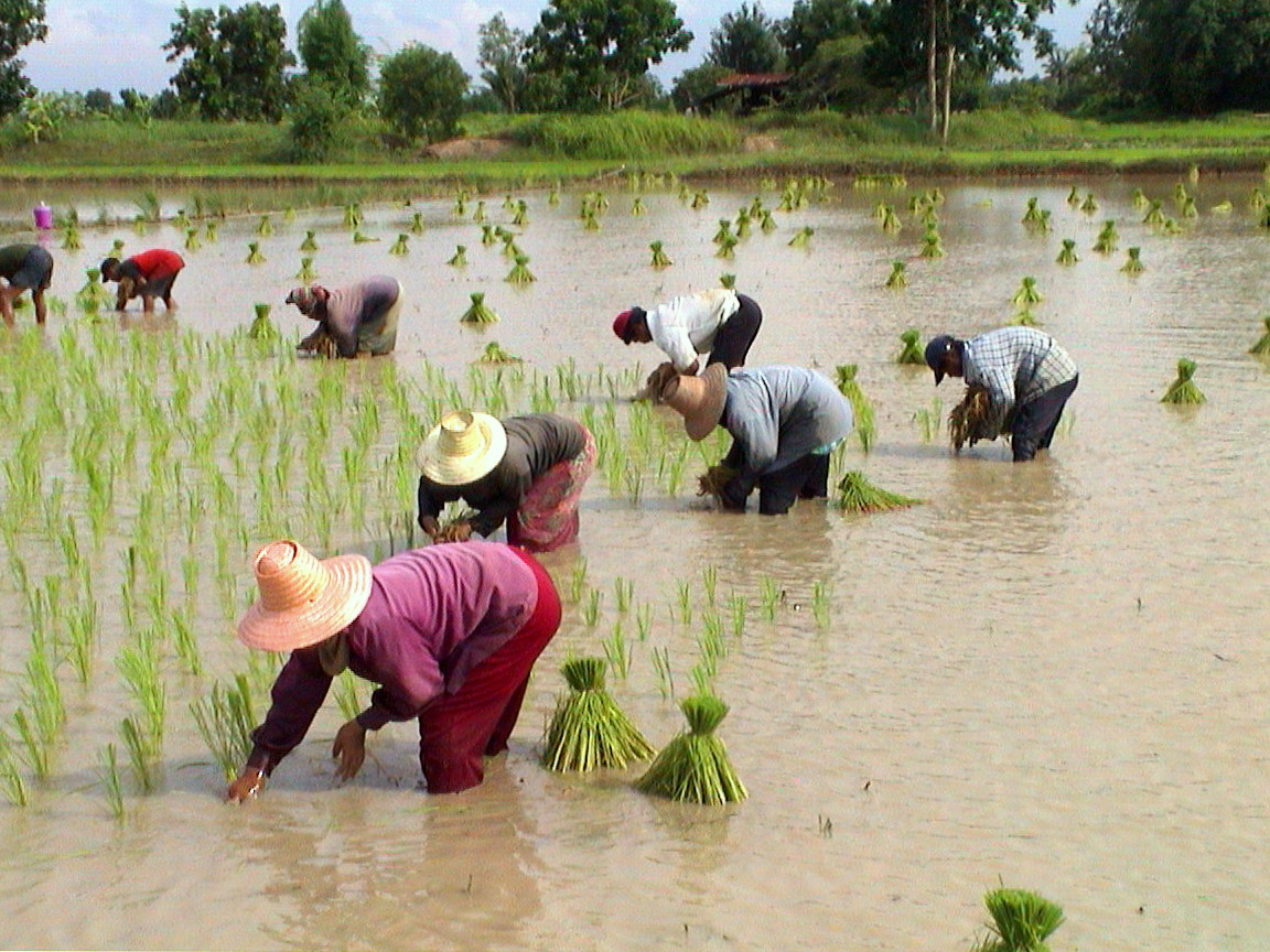 Rice farmers who are transplanting in Chaiyapun, Thailand, are members of the local community to manages the supply of the agricultural water. This picture was taken by TORIKAI Yukihiro, a Japanese economist, in 2004/09/01. タイ東北地方チャイヤプーン県で田植えをする農民。地域コミュニティのメンバーとして農業用水を管理管理する。2004年9月1日鳥飼行博撮影。